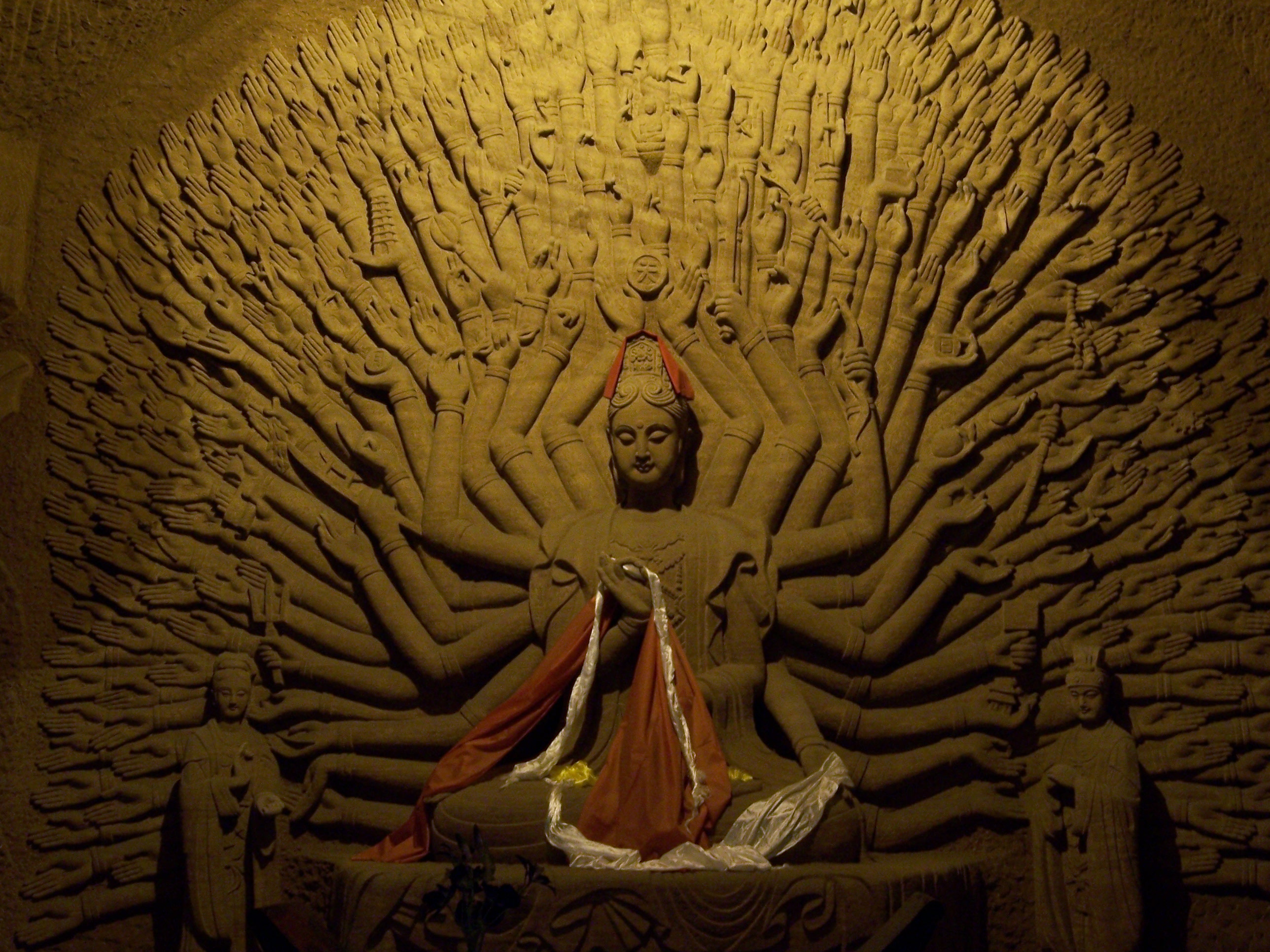 Buddhist carving of Thousand-Armed Guanyin (Avalokiteśvara) in Leshan, Sichuan, China.